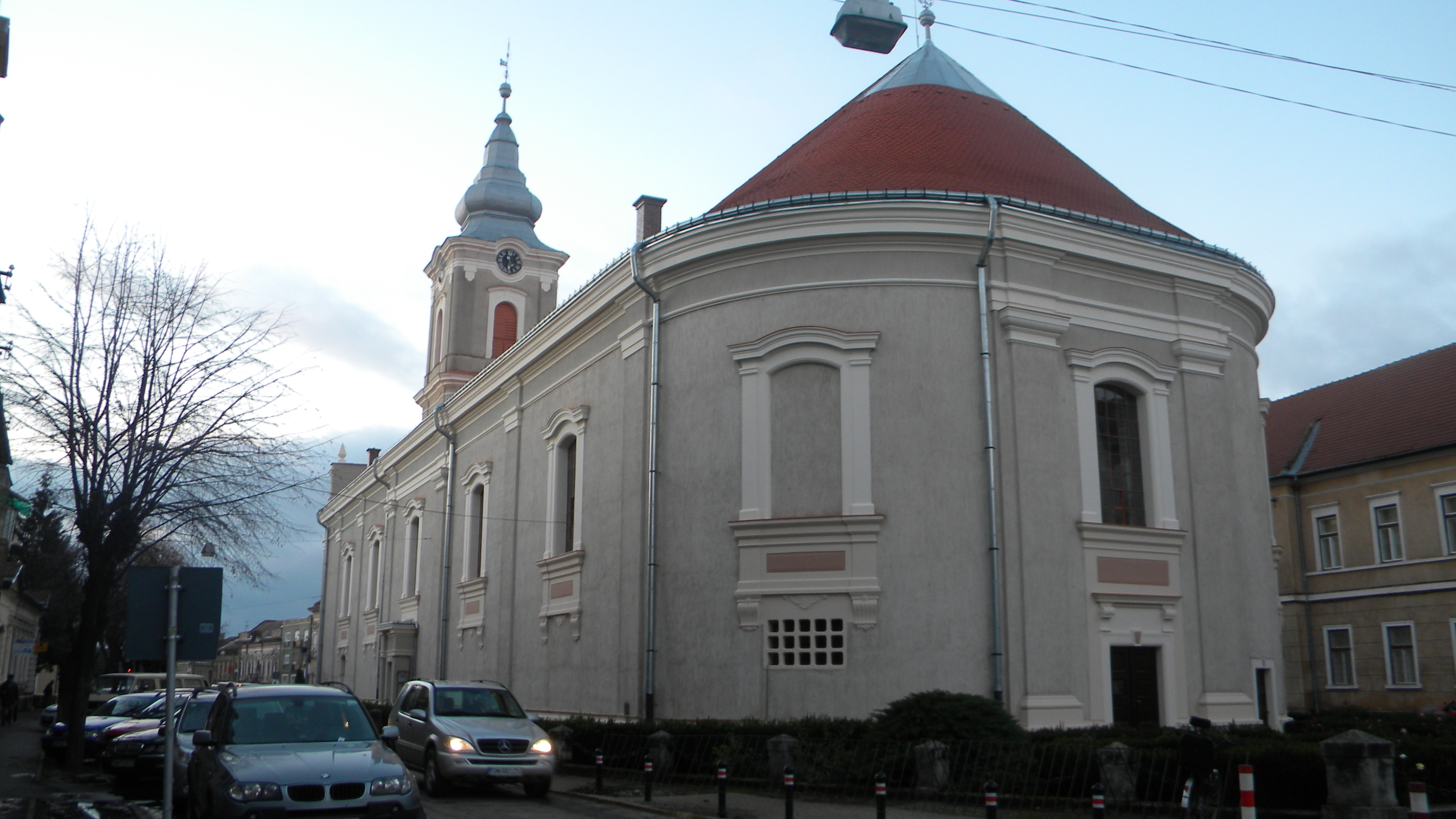 Chains church